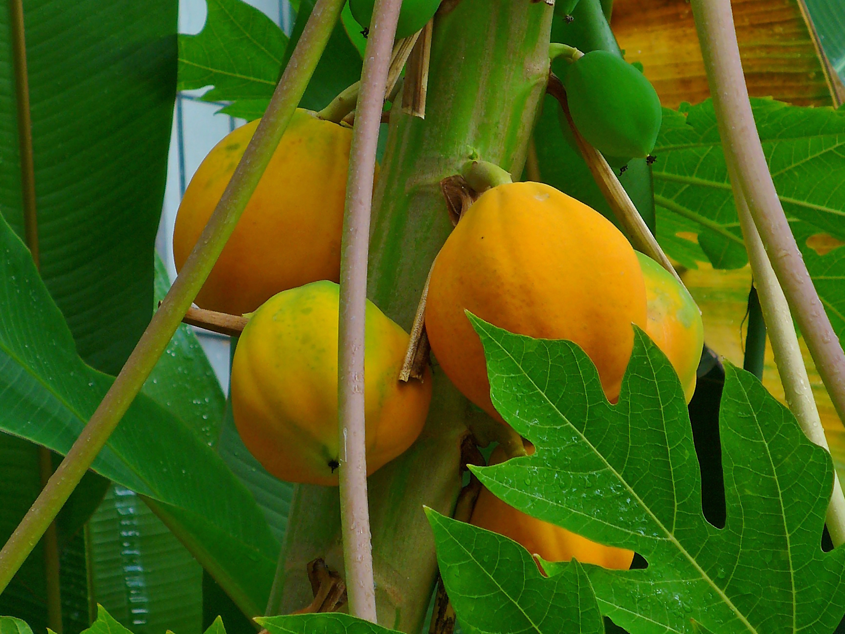 Carica papaya, Caricaceae, Papaya, fruits; Botanical Garden KIT, Karlsruhe, Germany. The leaves are used in homeopathy as remedy: Carica papaya (Cari-p.)